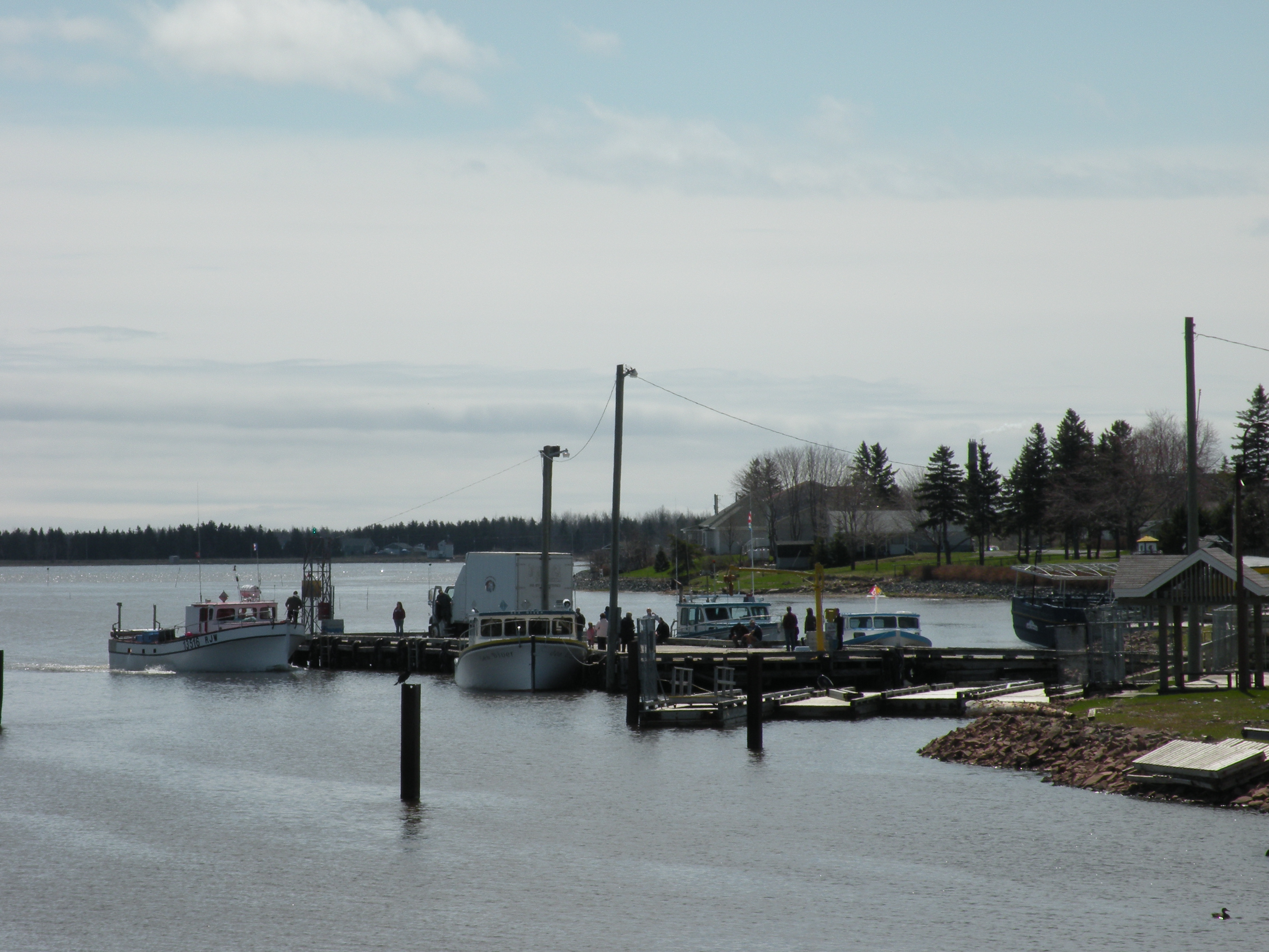 The port of Tracadie-Sheila, New Brunswick.